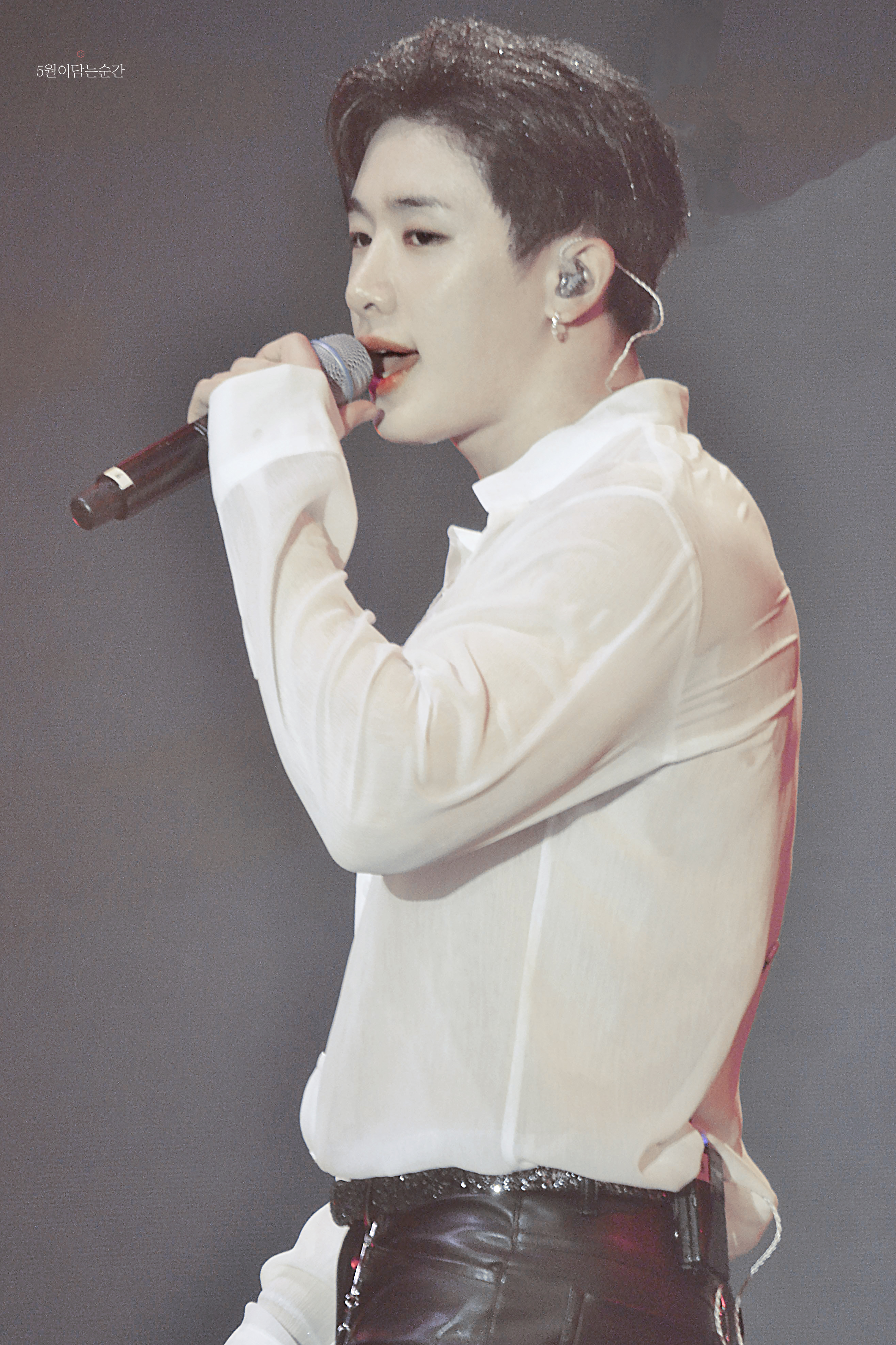 190519 AFMF